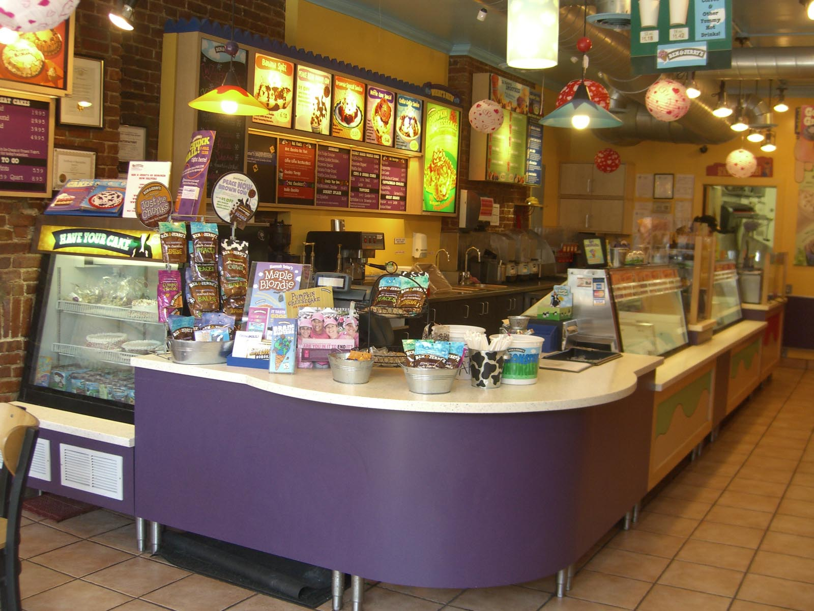 The interior of the Ben & Jerry’s on Washington Street in Hoboken, New Jersey. Photo by Luigi Novi. This photo may be used for any purpose, provided that the photographer is visibly credited in each instance where it is used. For further information on the Licensing requirements (See Licensing information below), contact me at here.